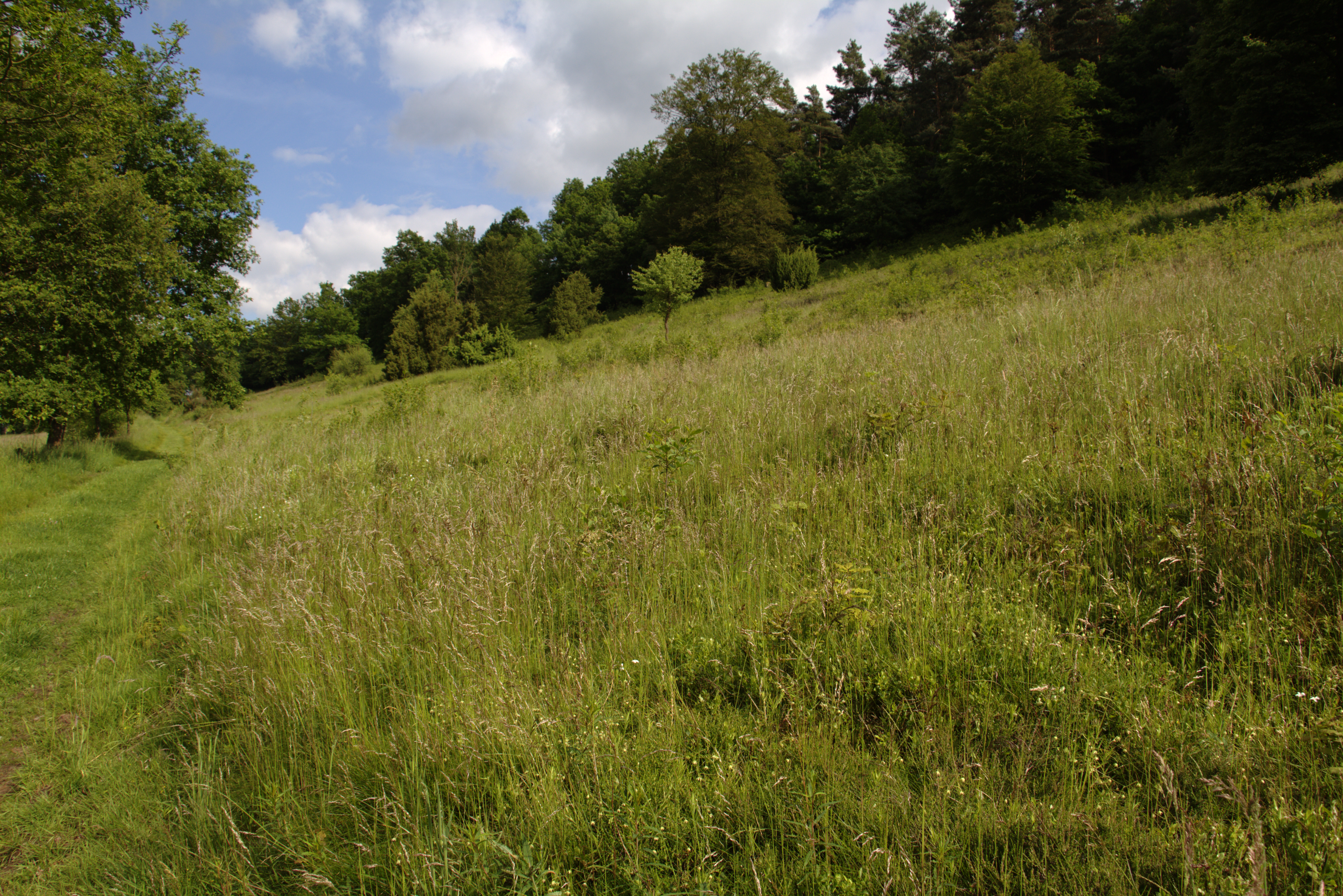 Calcareous grassland "Am Birkich" Angersbach, Wartenberg, Hesse, Germany